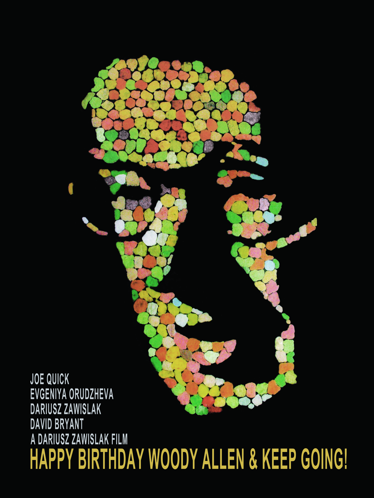 HAPPY BIRTHDAY WOODY ALLEN & KEEP GOING! Comedy